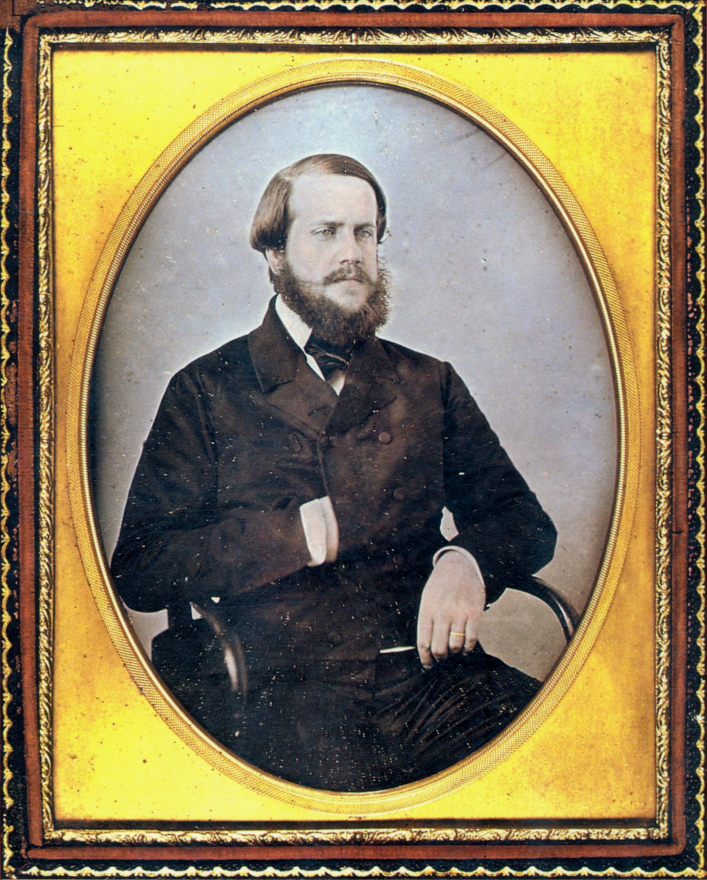 A daguerreotype of Emperor Dom Pedro II of Brazil around age 25, c.1851.